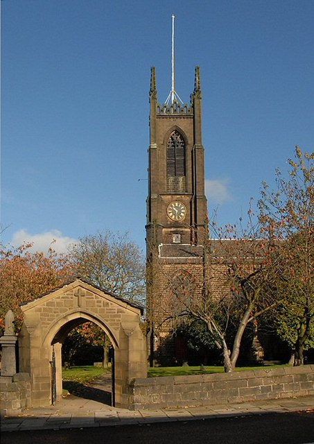 Holy Trinity